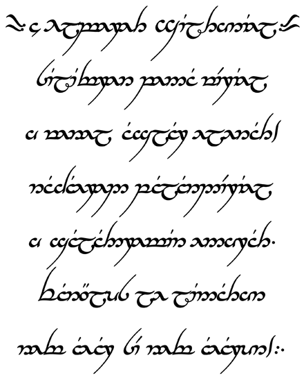 The long version of "A Elbereth Gilthoniel," also known as "Aerlinn in Edhil o Imladris (Hymn of the Elves of Rivendell)," written in Tengwar script using the mode of Beleriand.